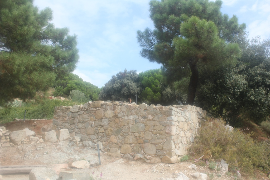 Poblat Ibèric Cadira del Bisbe, Premià de Dalt